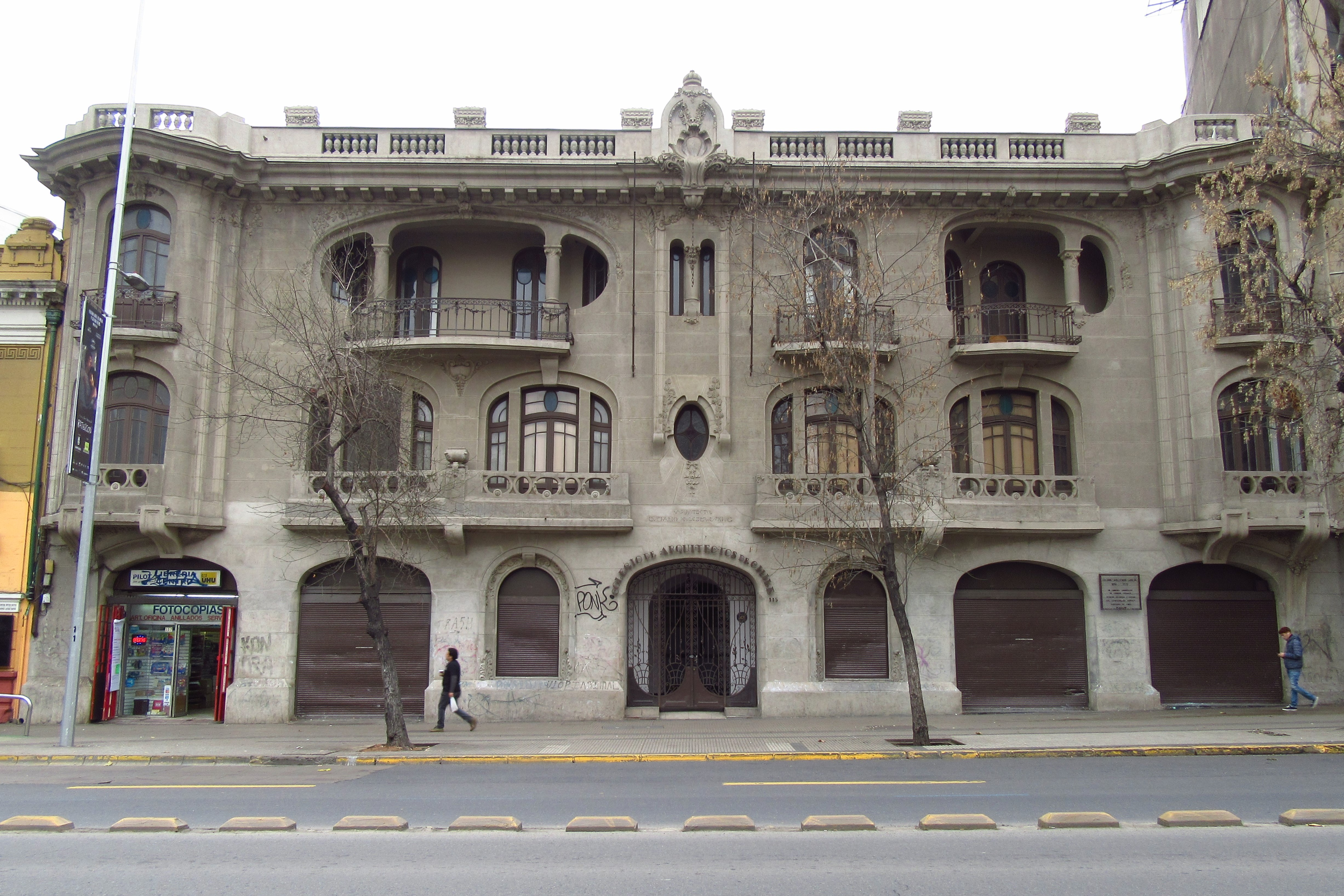 2017 in Santiago de Chile